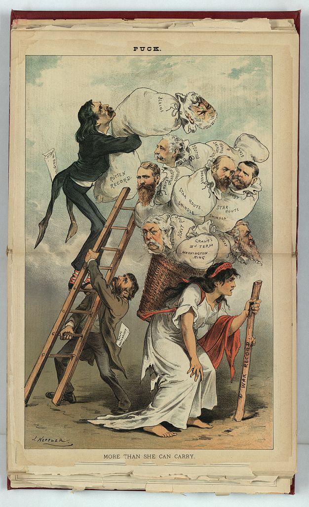 Title: More than she can carry Abstract: Illustration shows Whitelaw Reid placing a bundled-up package labeled "Blaine" and "Rotten Record" on top of a large pile in a basket being carried by a woman labeled "Republican Party" who is stooped under the burden and leaning on a staff labeled "War Record". Others already in the basket are "Kellogg" labeled "Returning Board & Star Ro", "Keifer" labeled "Speakership Corruption", "Dorsey" labeled "Star Route Swindle", "Brady" labeled "Star Route Swindle", "Robeson" labeled "Navy Ring", "Grant's IId Term Washington Ring", and "Belknap" who resigned as Grant's Secretary of War in 1876. A man labeled "Phelps Whitewasher" is holding the ladder for Reid. Physical description: 1 print : chromolithograph. Notes: J. Keppler.; Copyright 1884 by Keppler & Schwarzmann.; Illus. from Puck, v. 15, no. 375, (1884 May 14), centerfold.; Title from item.